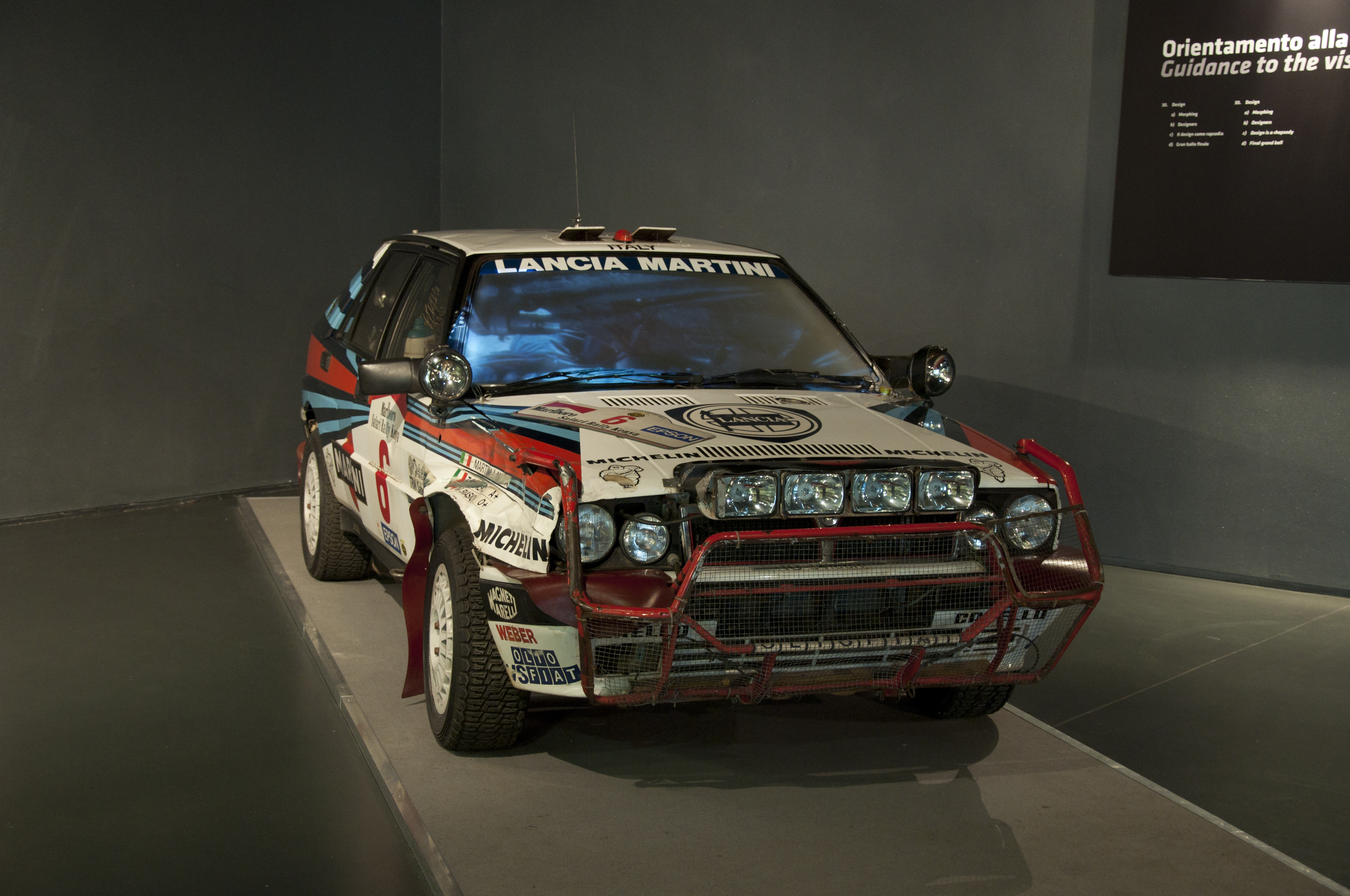 Massimo "Miki" Biasion and Tiziano Siviero's #6 Lancia Delta Integrale "8v" (Group A) of Martini Racing, winner of 1988 Safari Rally, at the National Automobile Museum (MAUTO) in Turin, Italy.